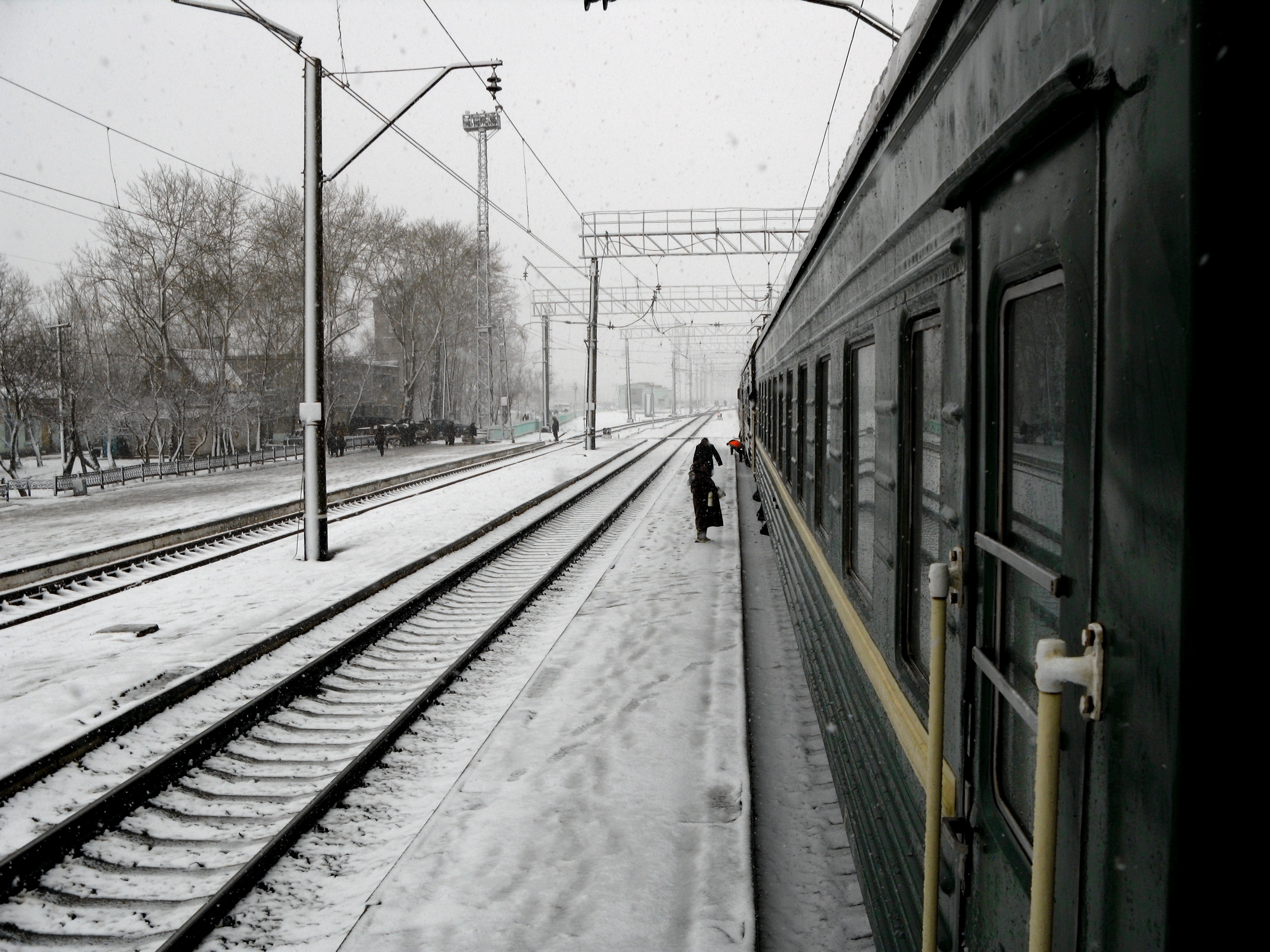 Trans-Siberian railway at Nazivaevskaya (Называевская), near Omsk, Siberia, Russia.